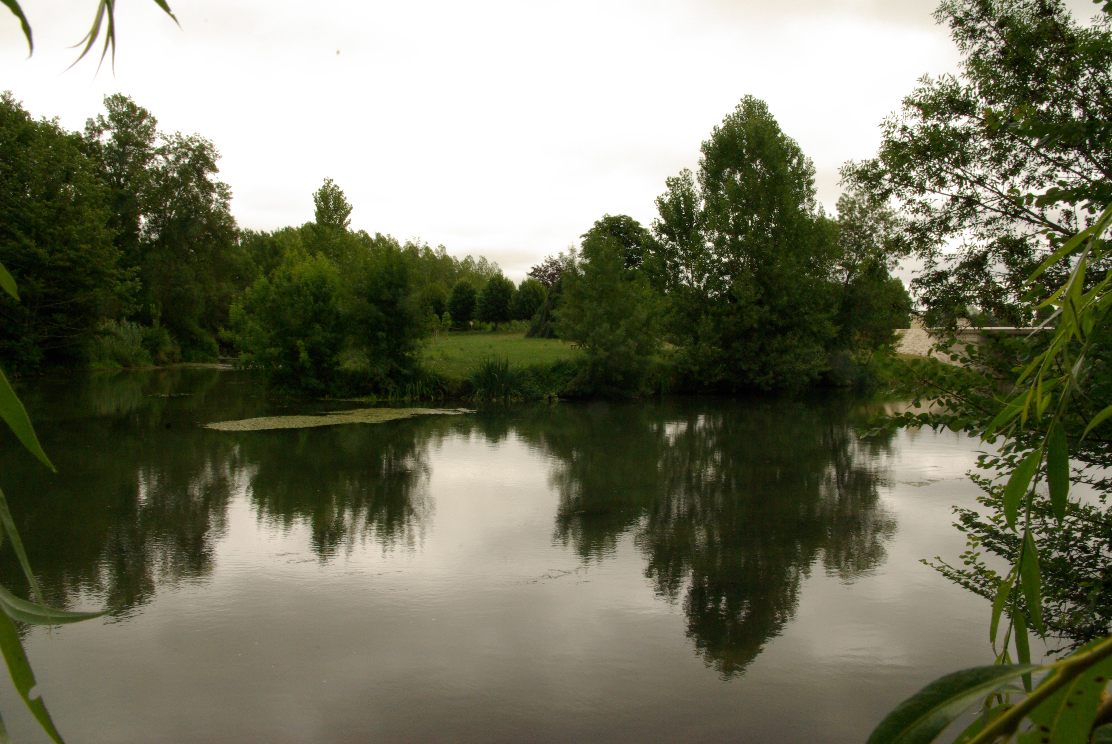 Confluence of Indre and Indrois